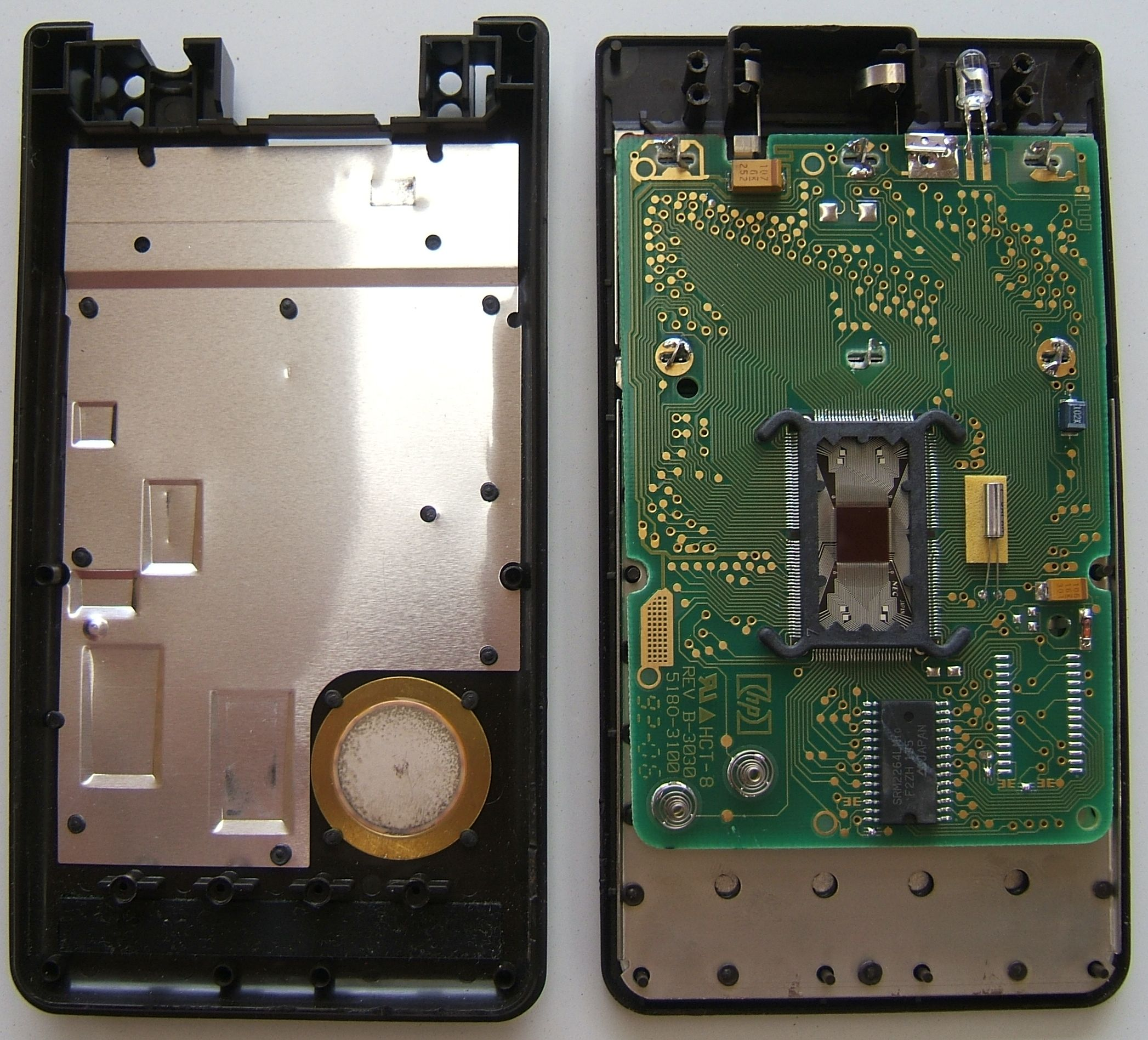 HP42S Calculator Internal Teardown